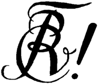 The logo / post-nominal of the fraternity Corps Altsachsen Dresden used when members sign e.g. letters of official communication.